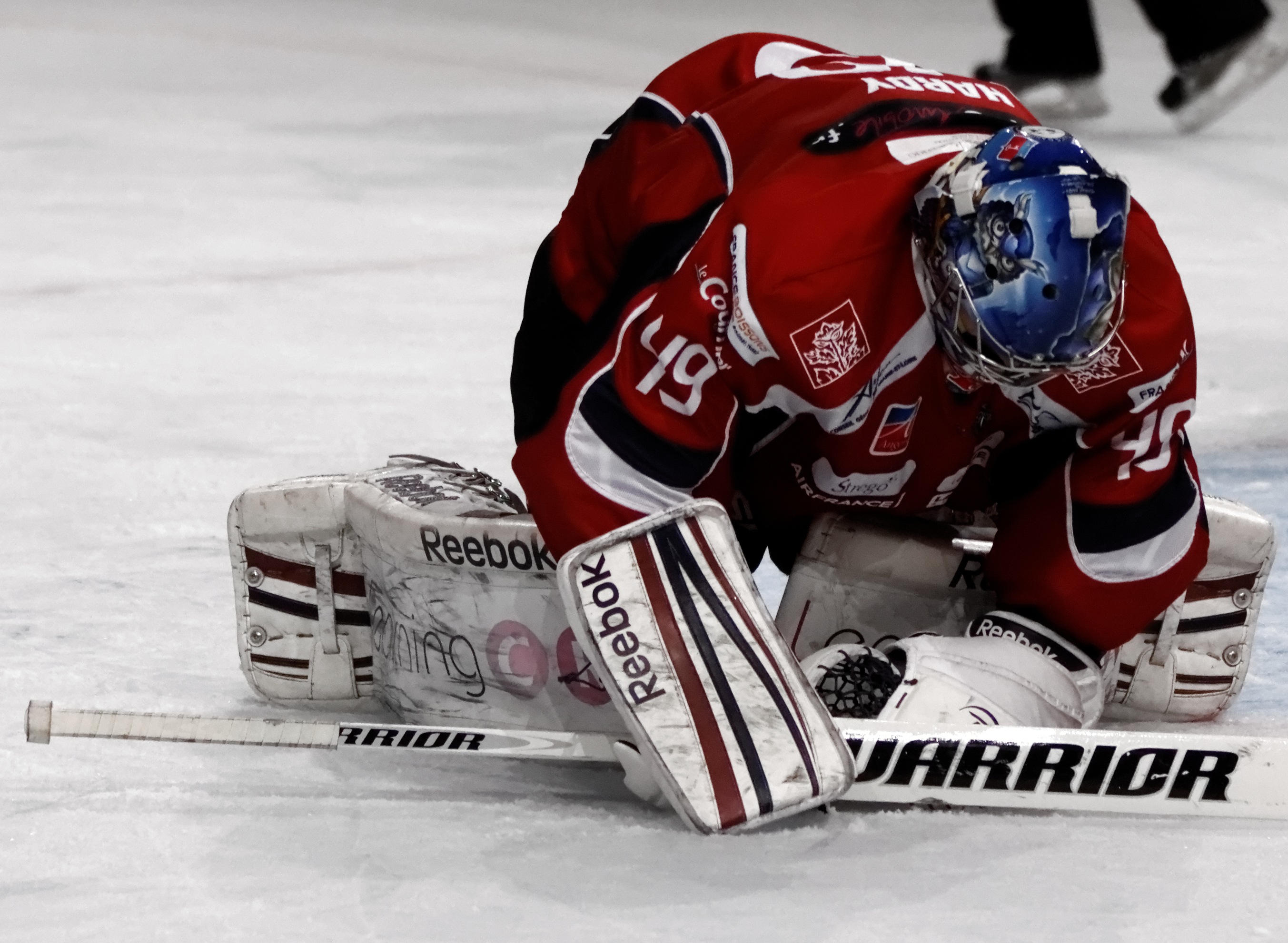 Final of the Ice Hockey French Cup 2013.